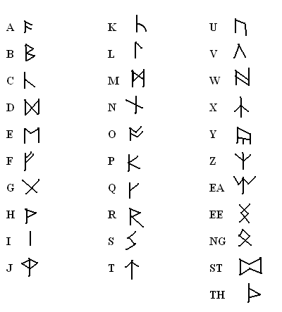 The Britannian runes|Artificial scripts in Ultima series|Britannian runes used in the Ultima|Ultima (video game series)|Ultima series of computer games.